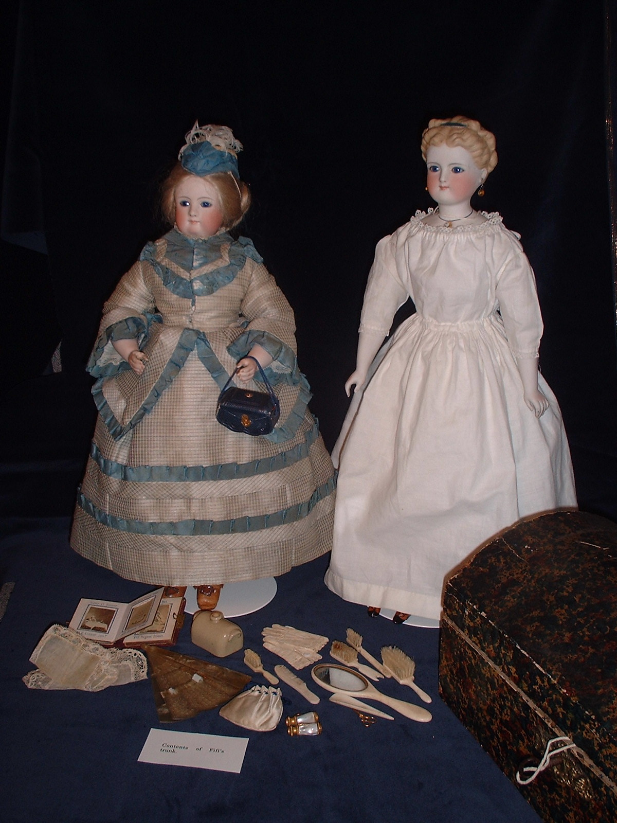 Fifi and Jane are two fine Parisiennne or Fashion dolls